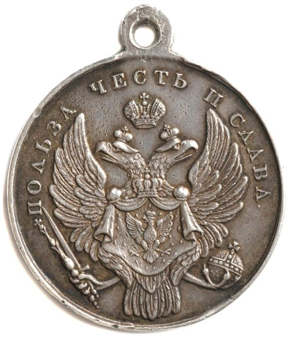 Warshav avers